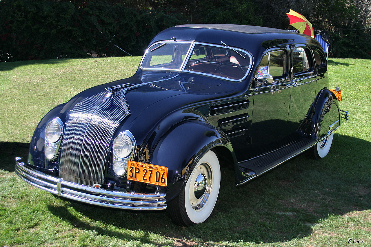 1934 Chrysler Airflow Series CU Sedan - blue